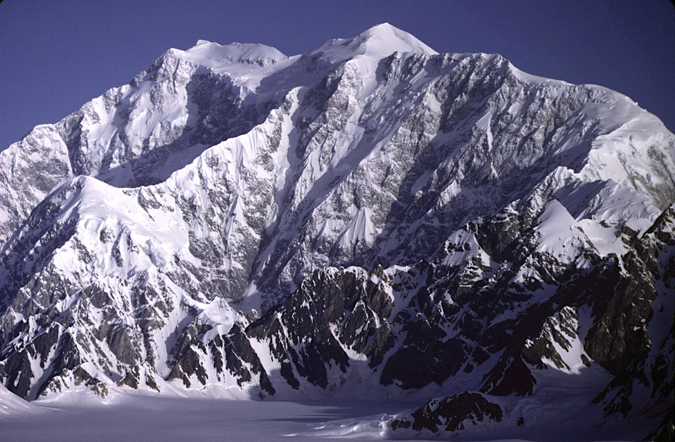 Mount Logan is the tallest mountain in Canada. This view is from the southeast.